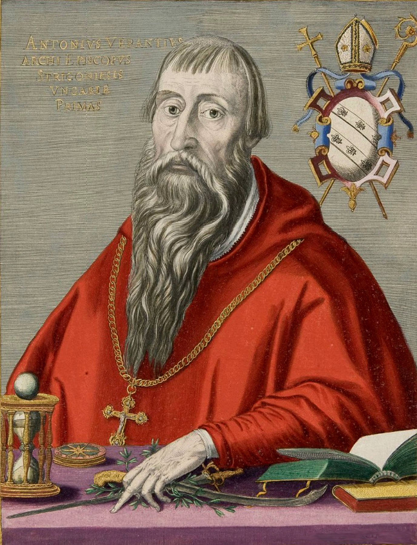 Engraving of Antun Vrancic